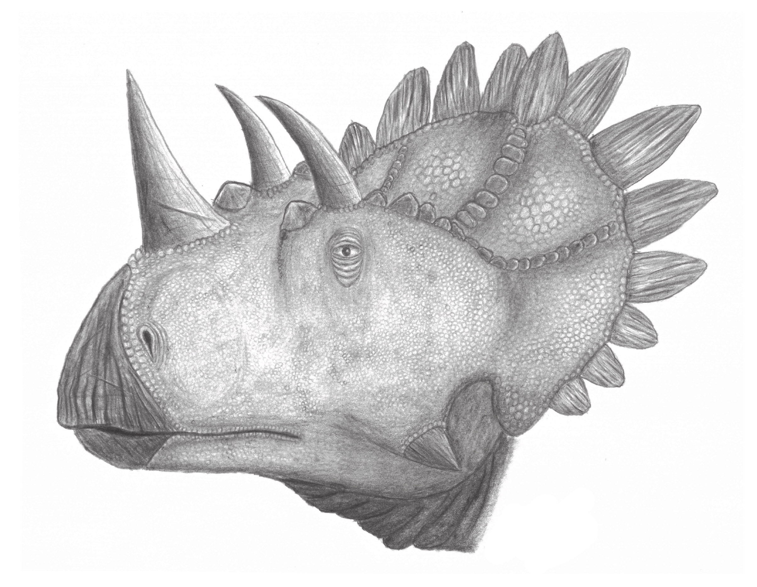 Regaliceratops peterhewsi was a ceratopsid dinosaur which lived 68 million years ago in what is now Canada.